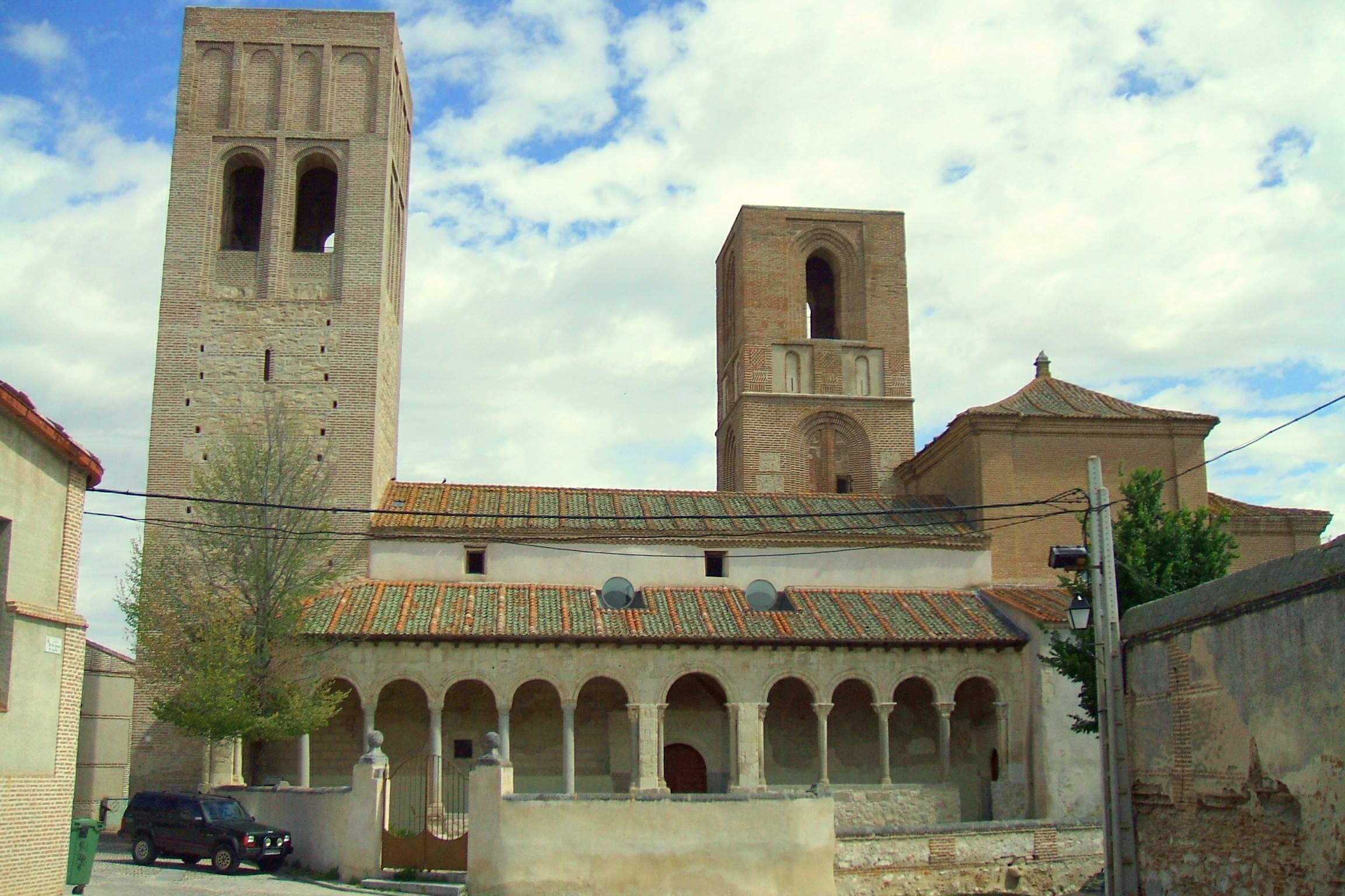 Iglesia de San Martín, Arévalo